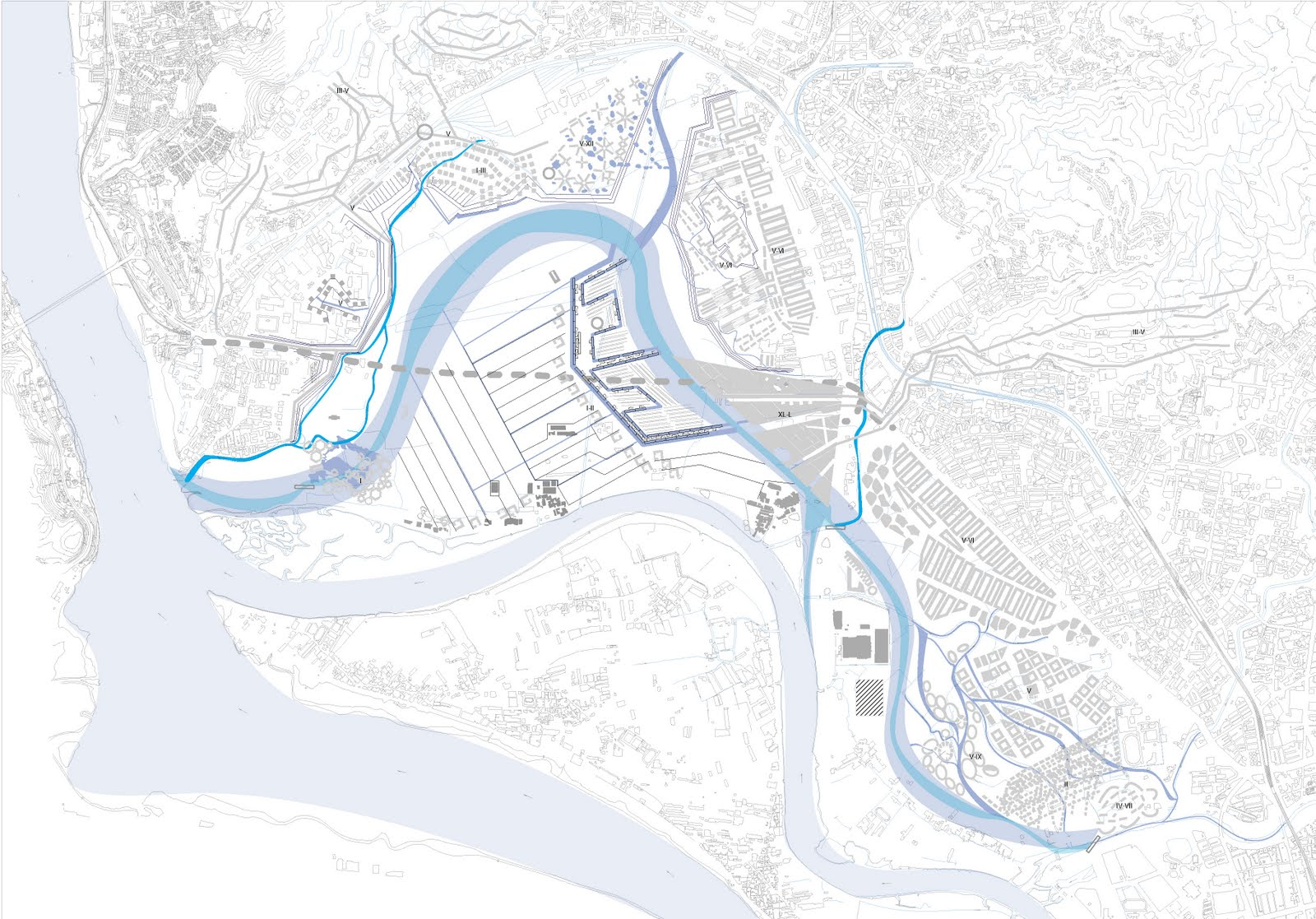 Guandu River City. Eco-city design for 150.000 citizens in Taipei. Aalto University SGT Sustainable Global Technologies, 2009.